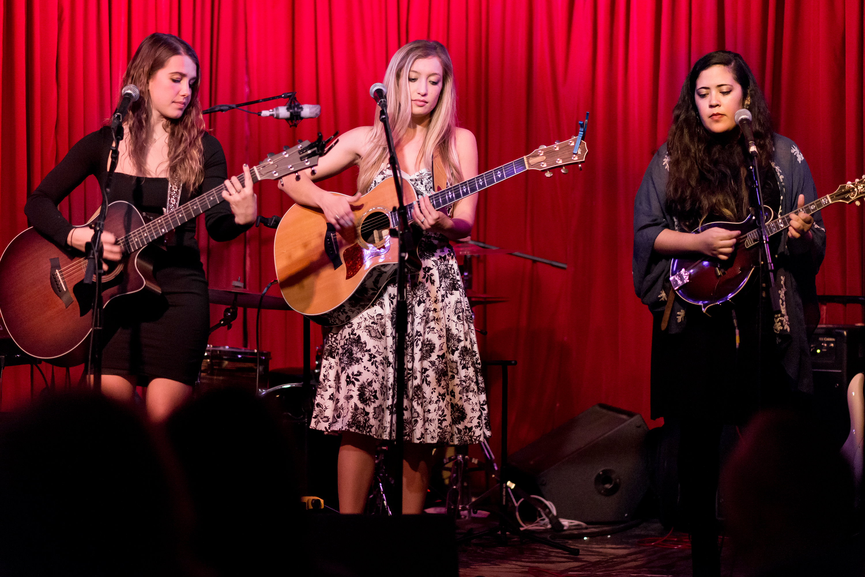 Maybe April performing live at the Hotel Cafe in Hollywood, Los Angeles, California, on Friday, January 12, 2018.